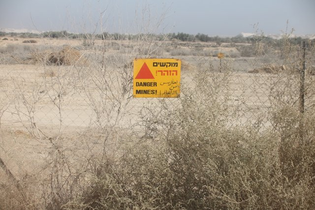 Mine field in Israel